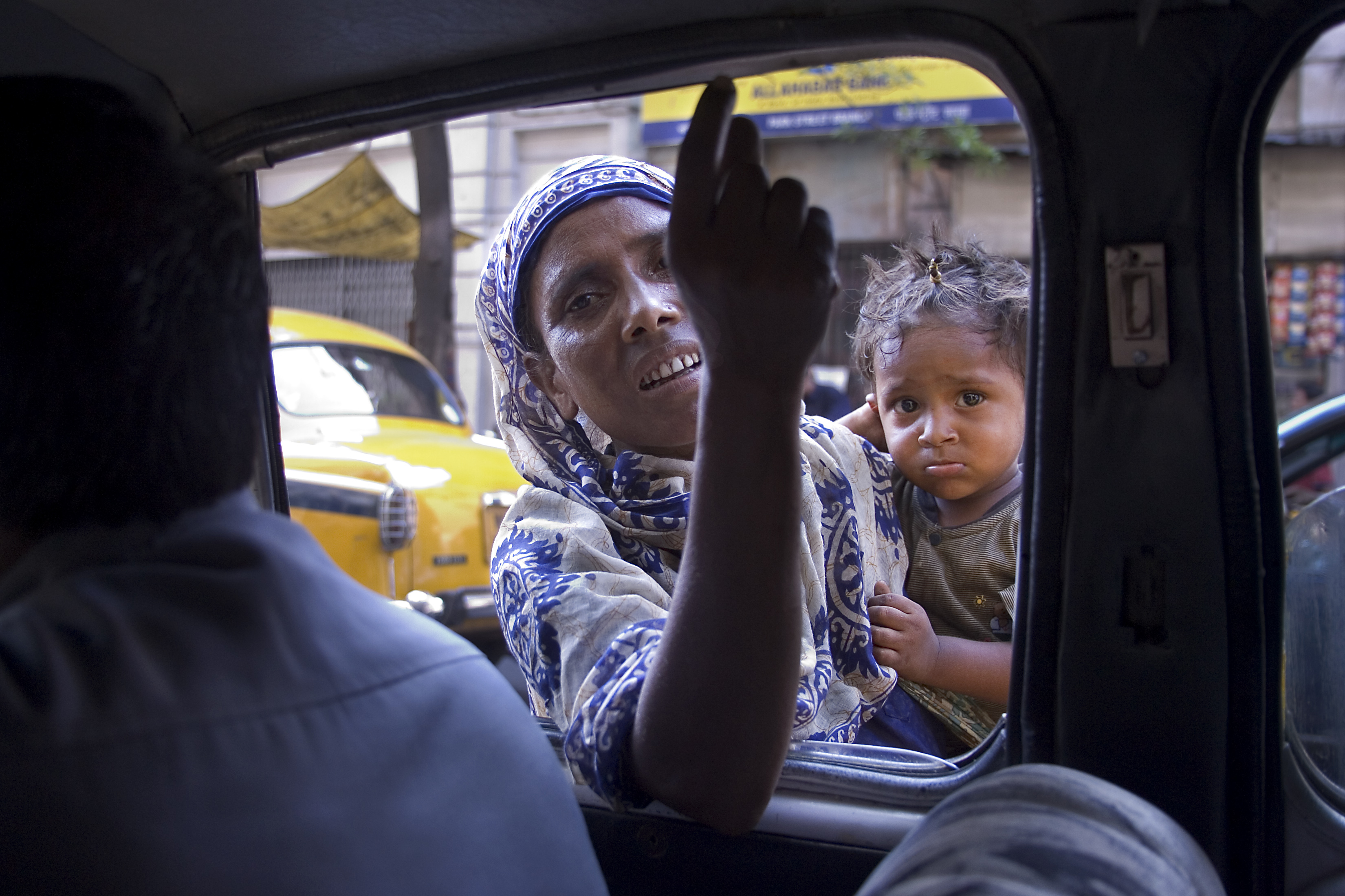 A street beggar gets into the car Calcutta Kolkata India